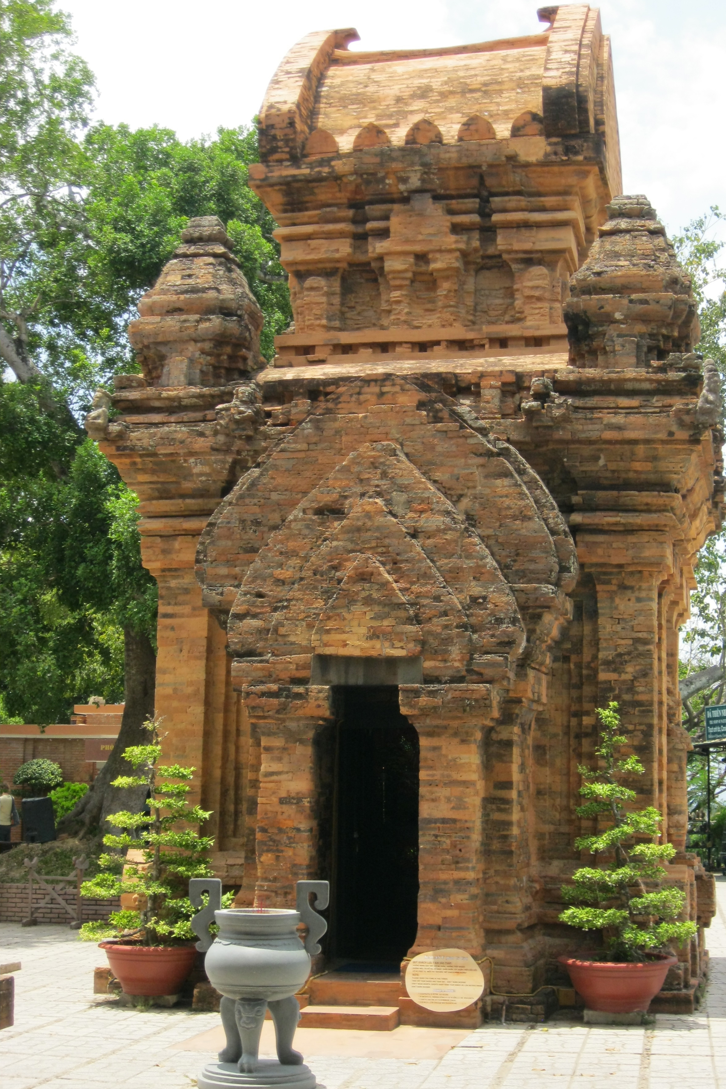 Smallest of four temples dedicated to Lord Ganesh in Po Nagar in Nha Trang/ Vietnam